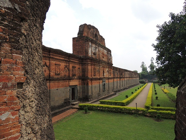 Hazarduari